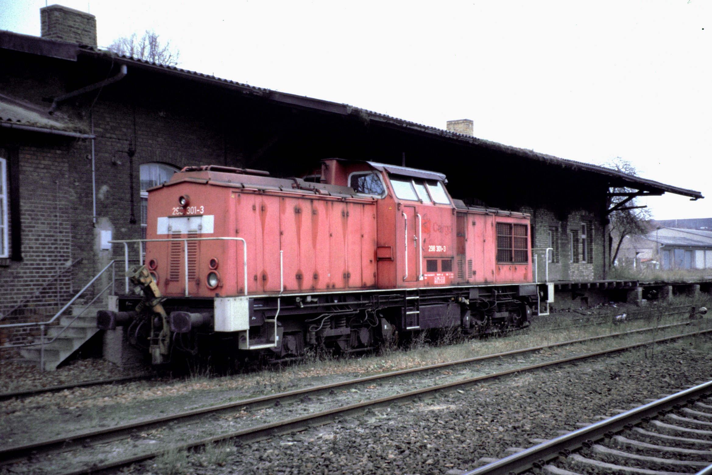 DBAG 298 301-3, former 111 001-4 in Niesky